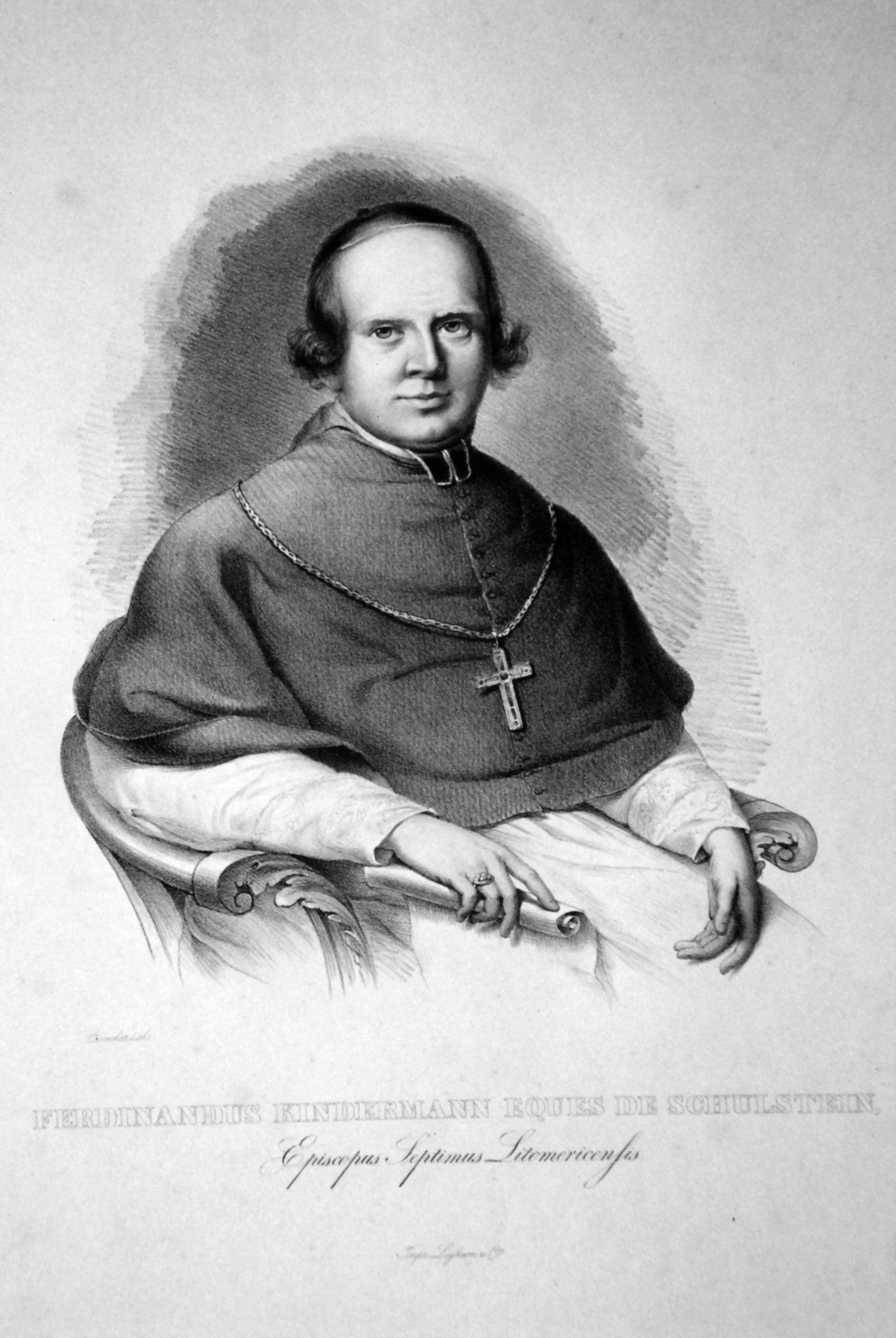 Ferdinand Kindermann von Schulstein (1790–1801), Roman Catholic bishop of Litoměřice, Czech.